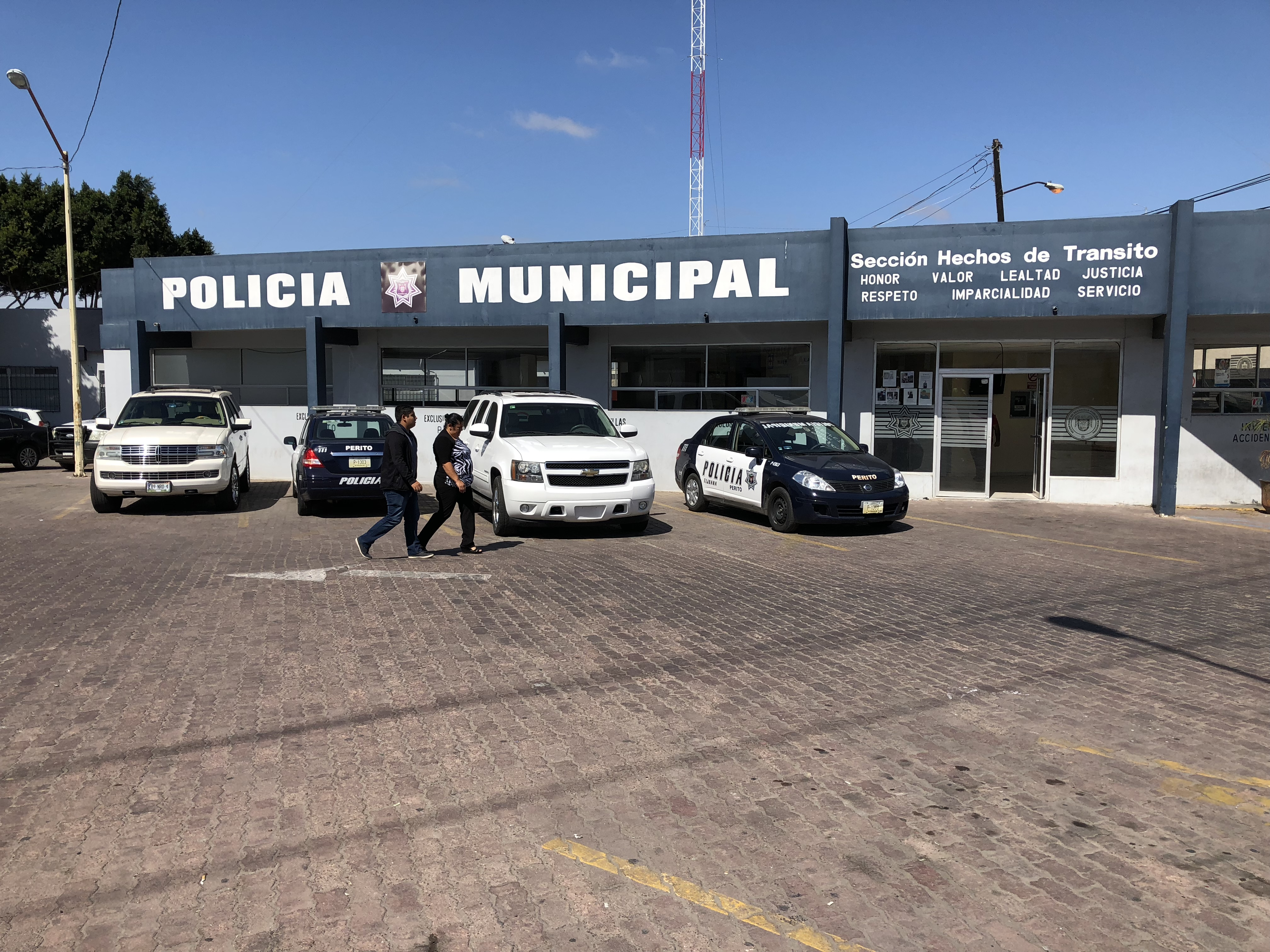 Policía Municipal de la Sección Hechos de Tránsito (traffic police).